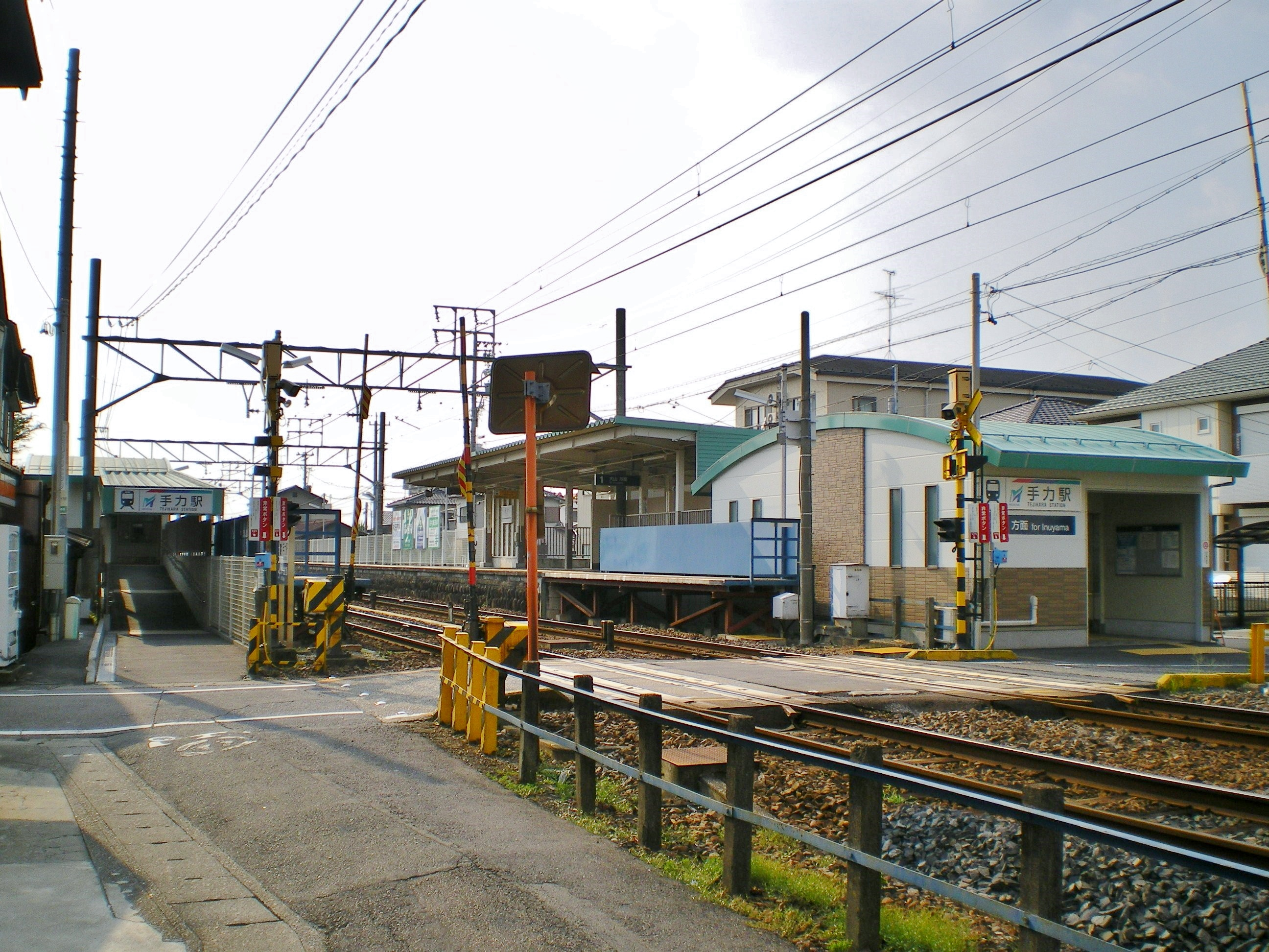 Nagoya Railroad Kakamigahara Line Tejikara Station Building